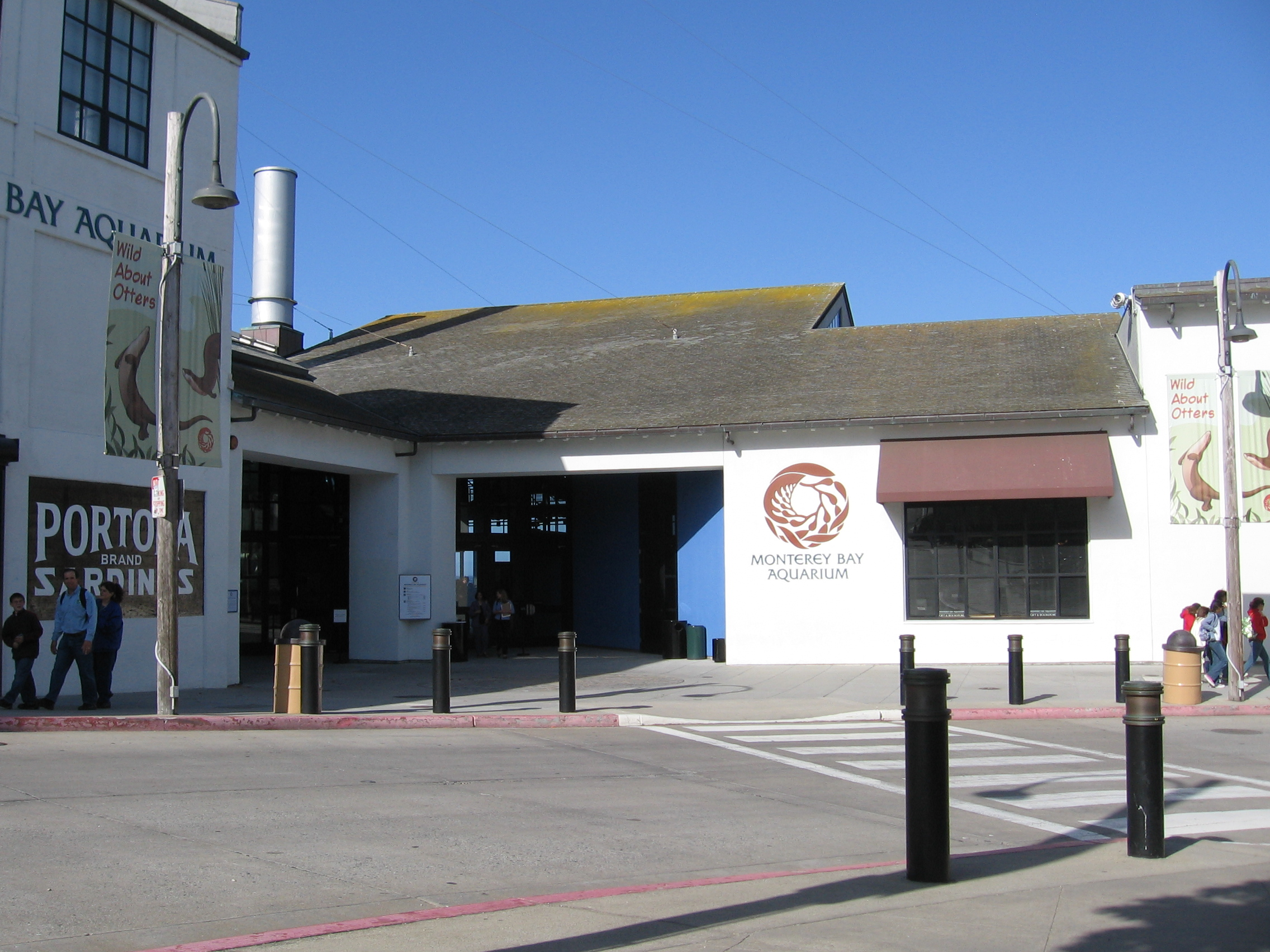 The front of the w: Monterey Bay Aquarium. Taken late in the day, on Monday, April 9th.